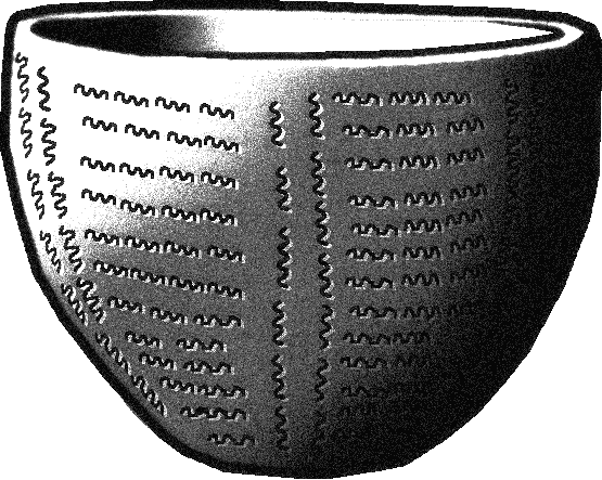 Generical drawing of a Cardium pottery